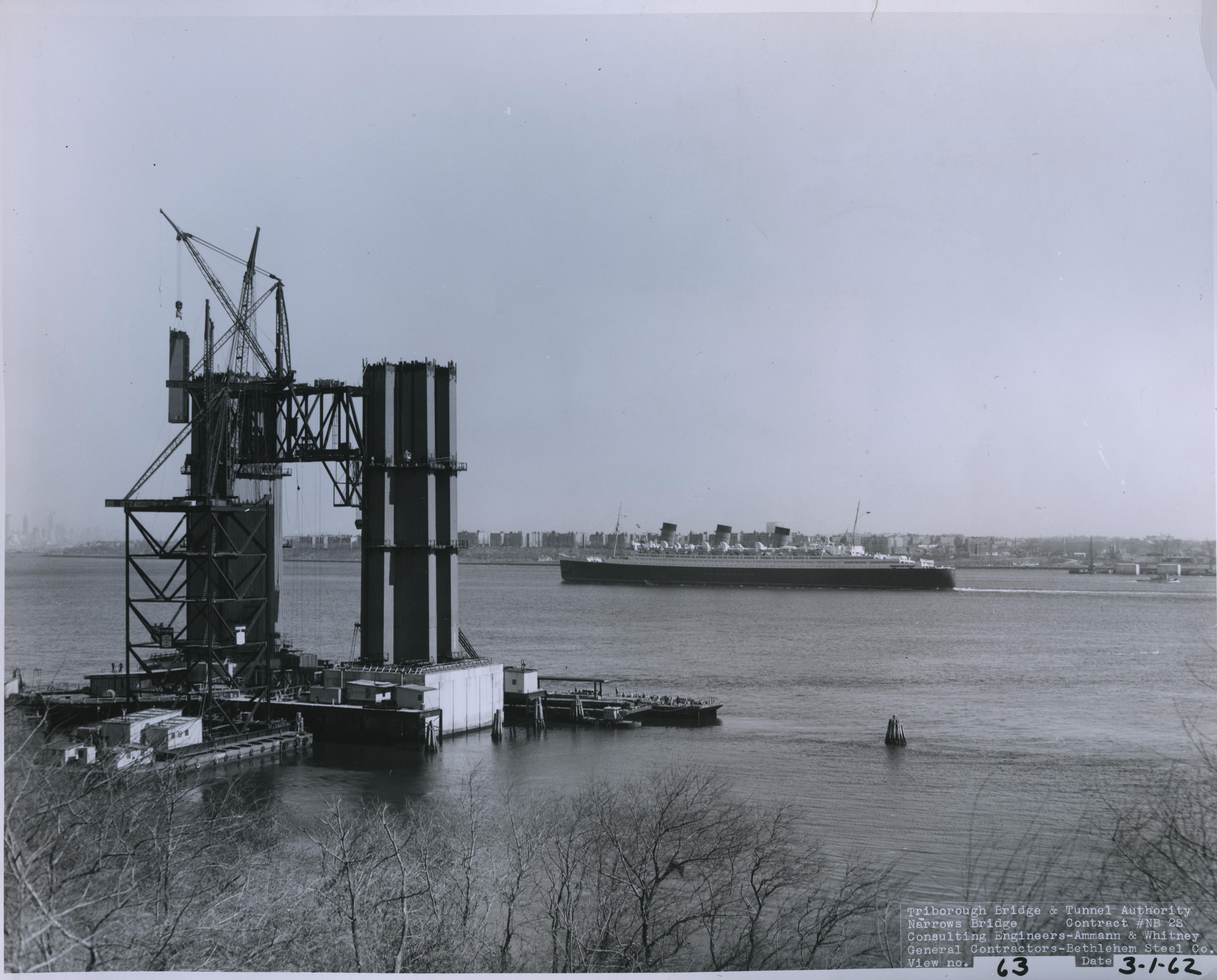 Staten Island Tower - erection of fourth tier of steel along. March 1, 1962. Photo: Lenox Studios